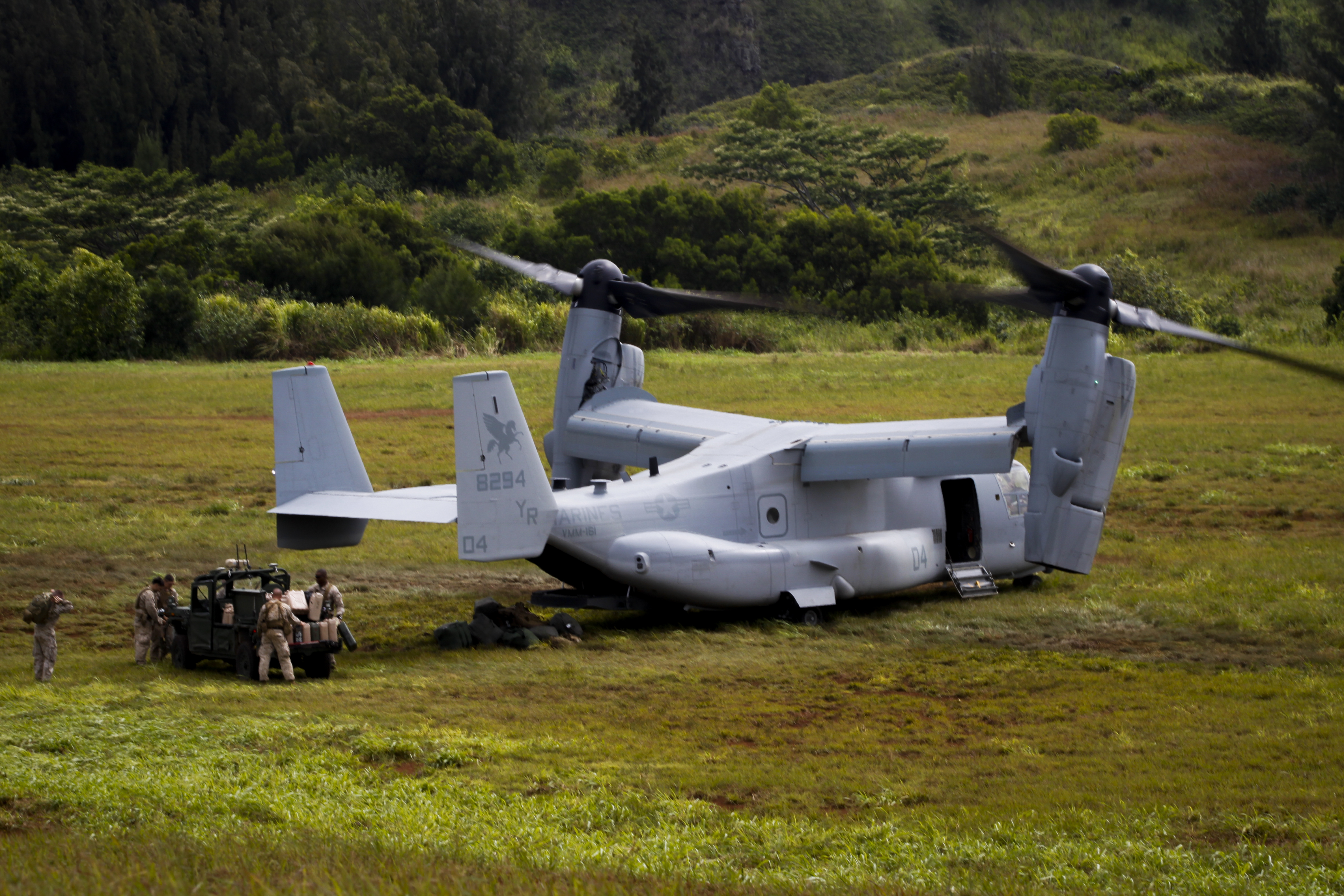 U.S. Marines with 3rd Marines, 3rd Marine Regiment prepare to receive a resupply of food and water by the Ground Unmanned Support Surrogate (GUSS) from a MV-22 Osprey during experiments held by the Marine Corps Warfighting Lab (MCWL) at the Kahuku Training Area, Oahu, Hawaii, July 11, 2014. There are multiple technologies being tested during RIMPAC, the largest maritime exercise in the Pacific region. This year's RIMPAC features 22 countries and around 25,000 people. (U.S. Marine Corps photo by Sgt. William L. Holdaway)